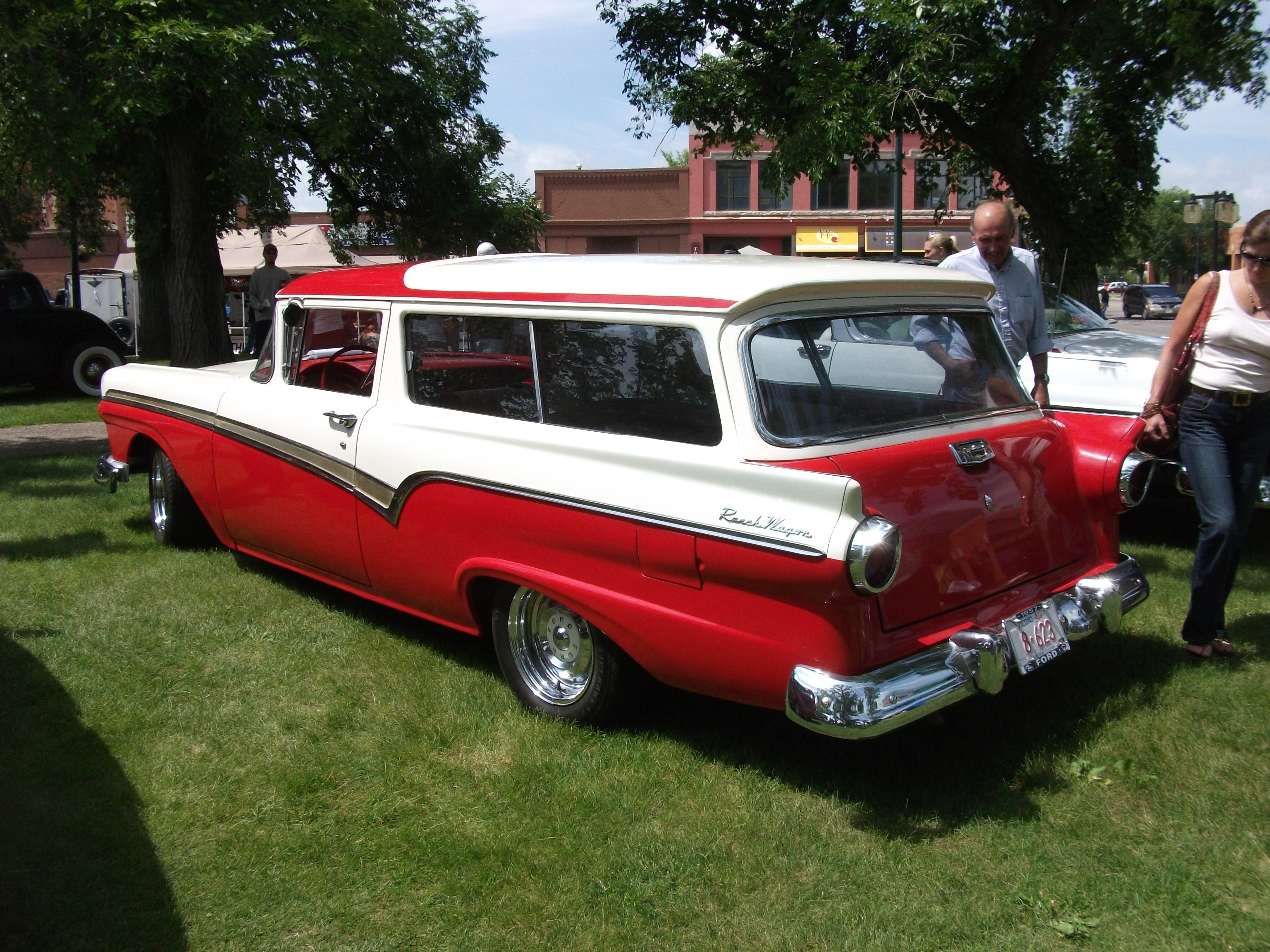 Two tone 1957 Ford King Ranch